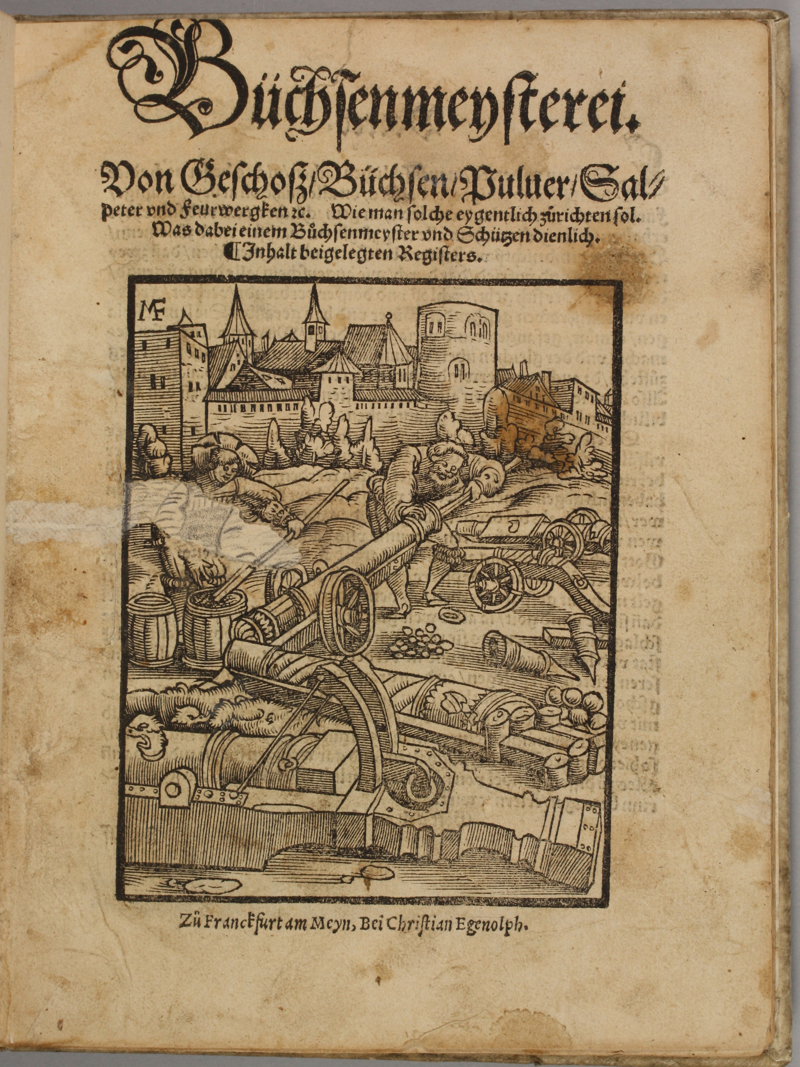 Büchsenmeysterei : von Geschoß, Büchsen, Pulver, Salpeter und Feurwergken Wie mann solichs eygentlich zurichten sol, Was dabei einem Büchsenmeyster und Schützen... Frankfurt: Christiaan Egenolff, 1531 Rare second edition of the very important early manual on gunpowder first published in 1529. Perhaps even rarer than the first, this edition is held by only three libraries worldwide, with the other two in Germany. The book went through many editions but is nevertheless scarce. The thinking is that the books were literally “blown up.” As practical references for gunners, conditions were not optimal for their survival.